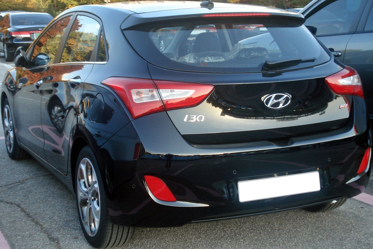 Hyundai i30